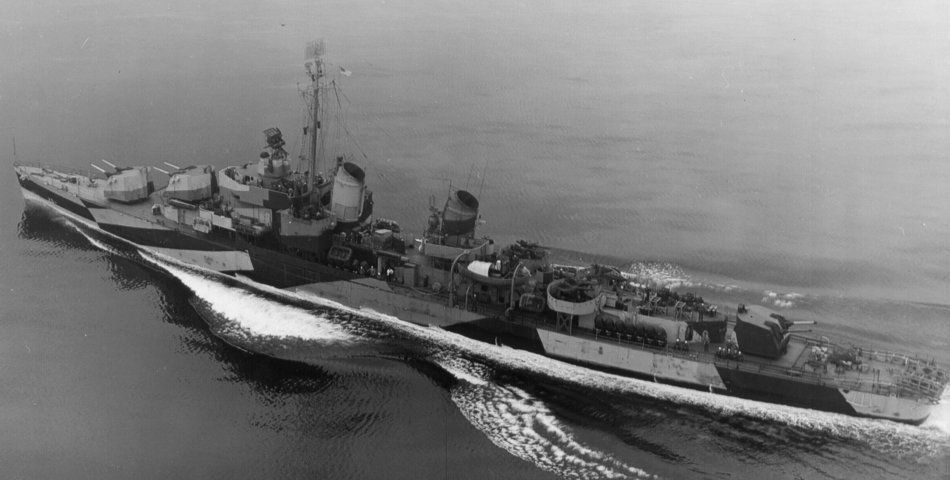 The U.S. Navy destroyer minelayer USS Harry F. Bauer (DM-26) underway, circa in 1944.